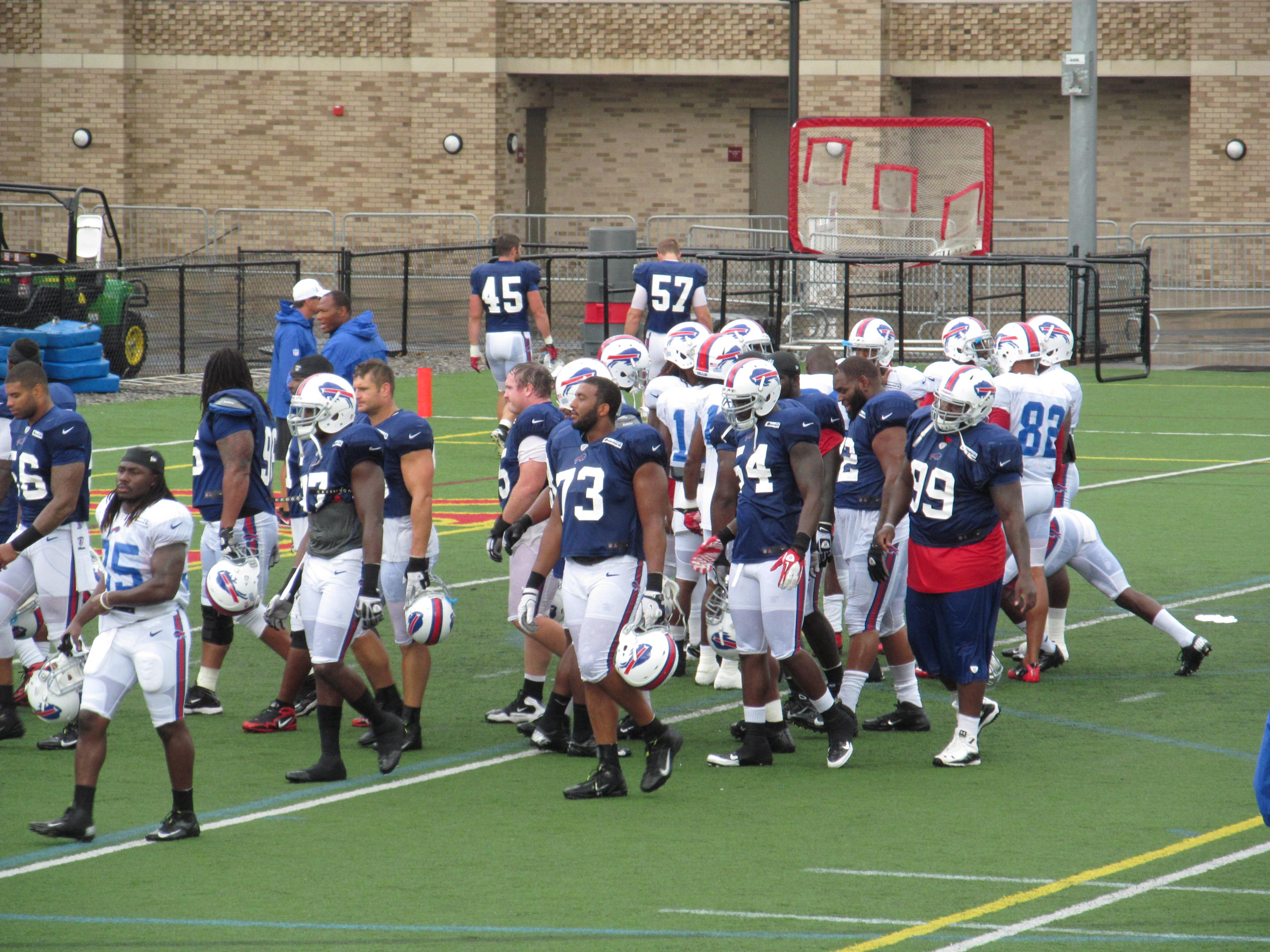 Buffalo Bills defensive linemen (dark blue jerseys) at training camp in 2012, with offensive players (white jerseys) behind